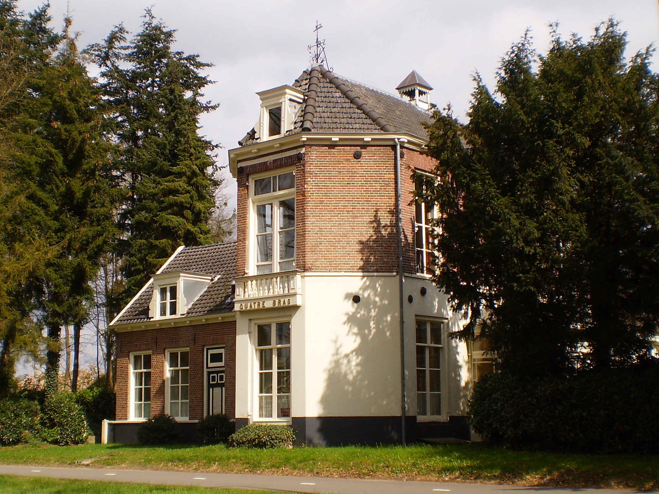 Quatre Bras estate in Quatre Bras, Lochem municipality, the Netherlands